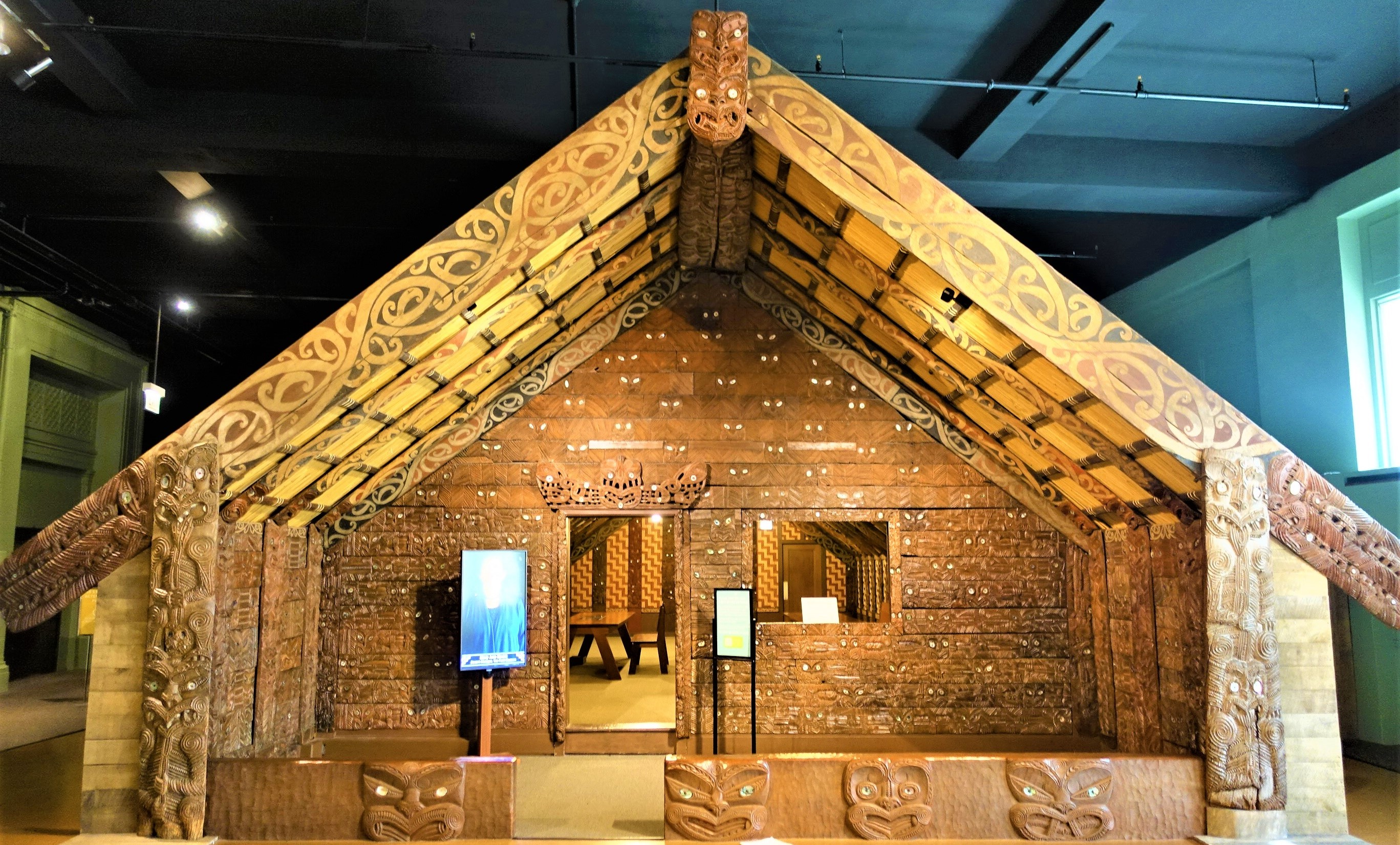 Maori Meeting House, Ruatepupuke II - Field Museum of Natural History - by Joy of Museums, for more information